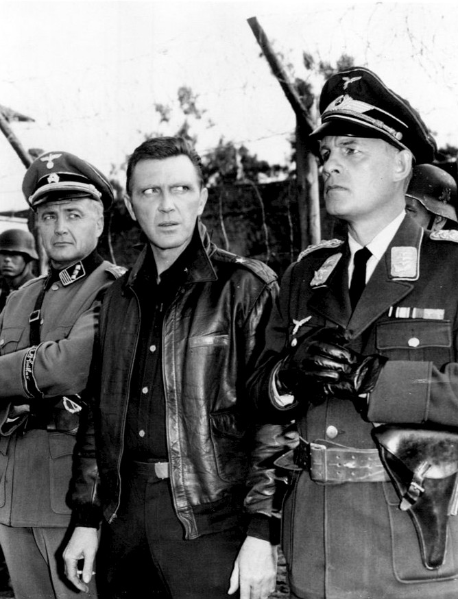 Photo of John van Dreelen, Robert Lansing and Alf Kjellin from the televison drama Twelve O'Clock High. Colonel Savage (Lansing) is held prisoner by a Nazi officer (Van Dreelin).